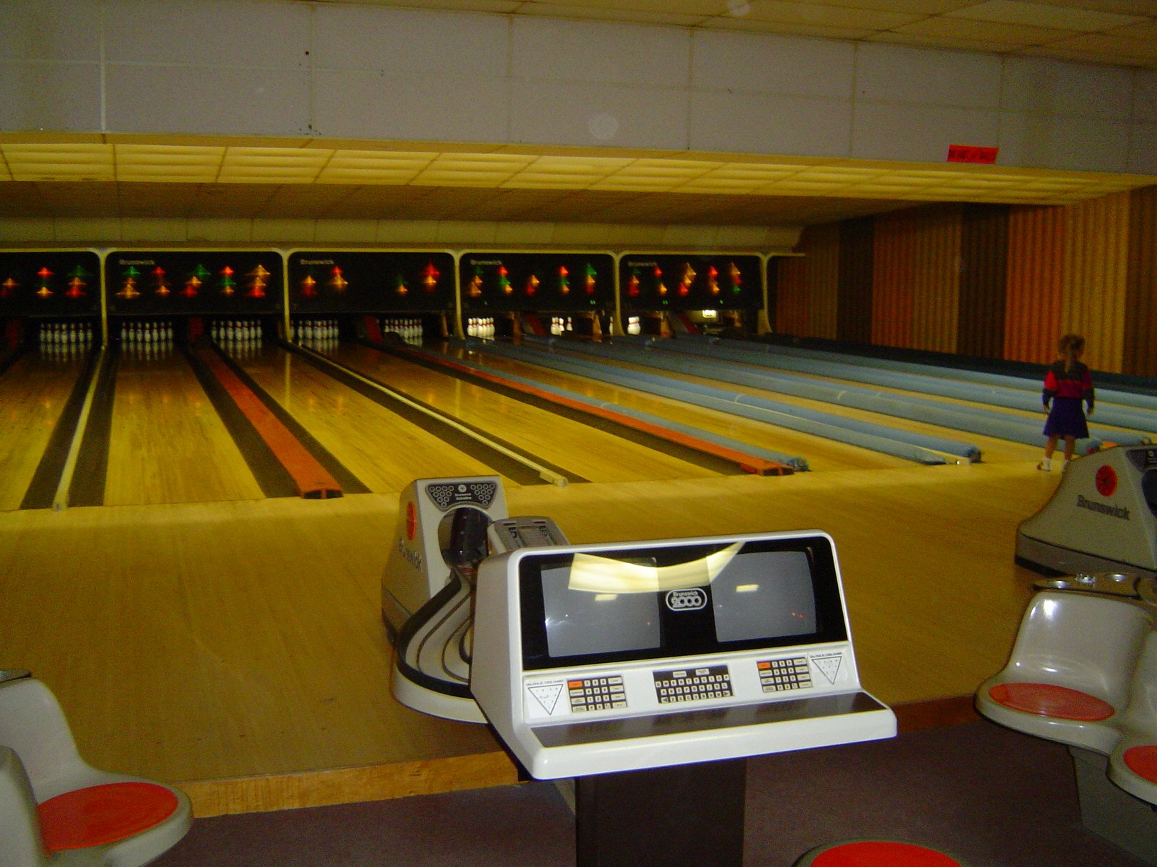 Bowling Automatic Scorer